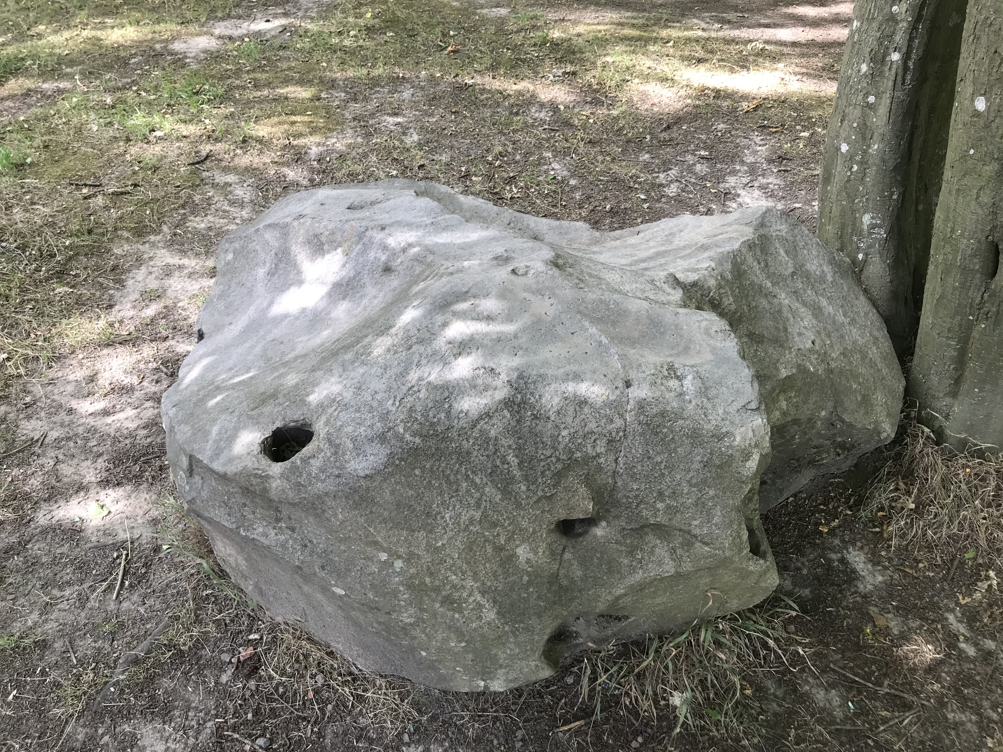 Neolitic stone retrieved in 1971 in Étang du Flaquet